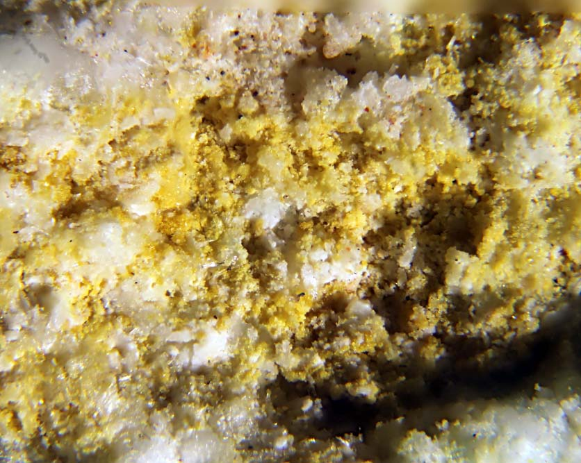 White acicular crystals of the rare mineral khademite associated to yellow natrojarosite and minoritary pickeringite from Cerros Pintados (Iquique Province, Tarapacá Region, Chile), the type locality for pickeringite. Analyzed specimen.